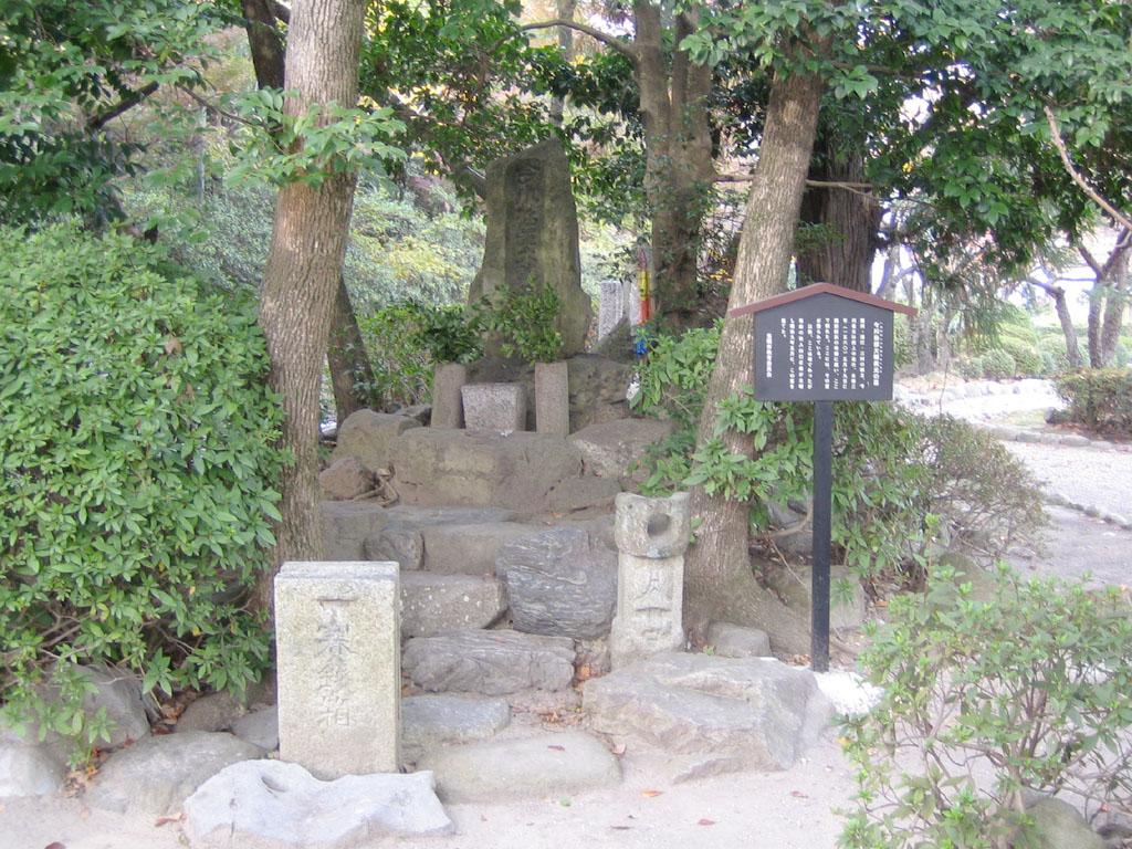 The grave of Imagawa Yoshimoto (今川 義元, 1519-1560), in Nagoya, Aichi, Japan